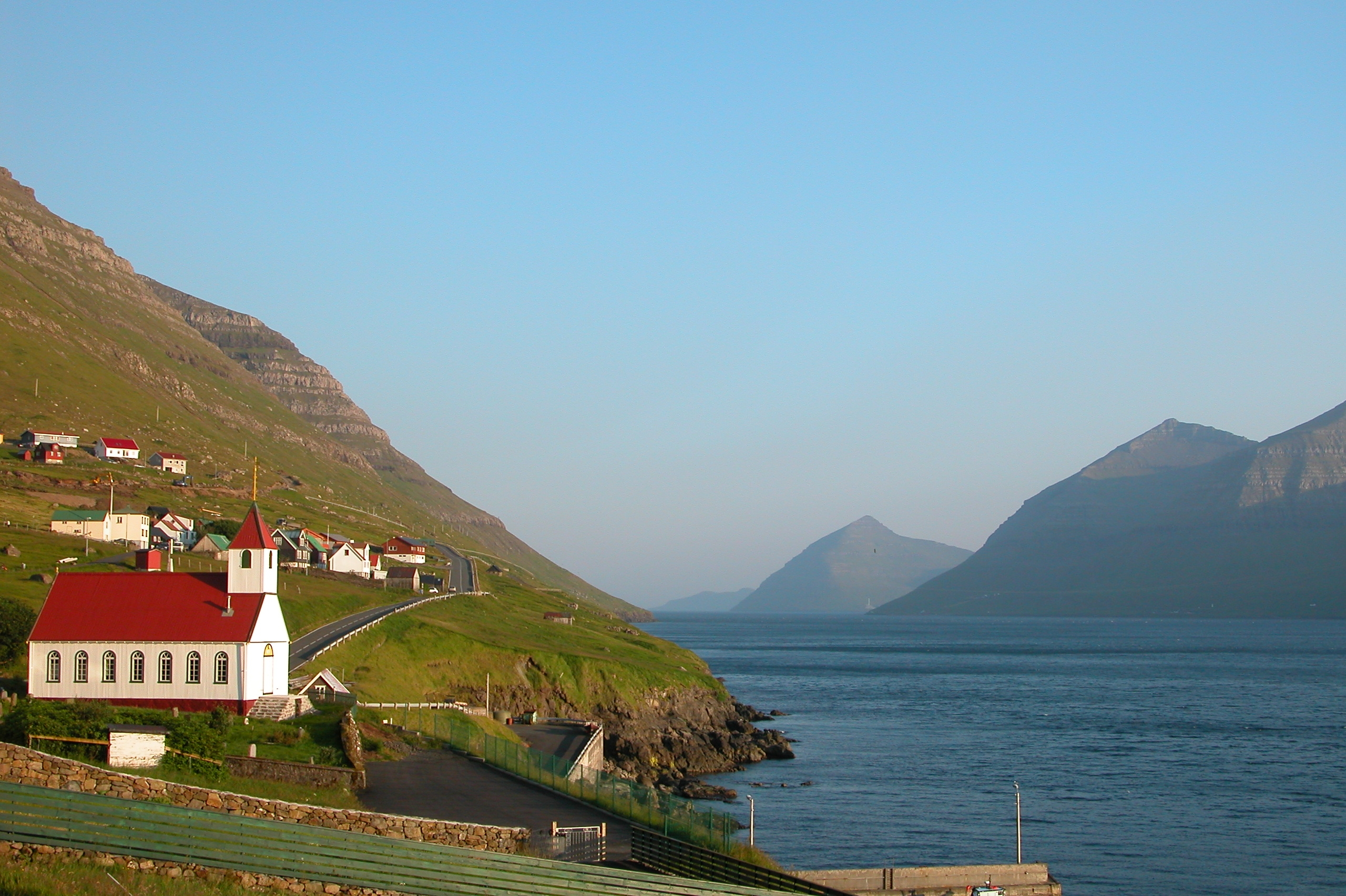 Village of Kunoy, Faroe Islands.